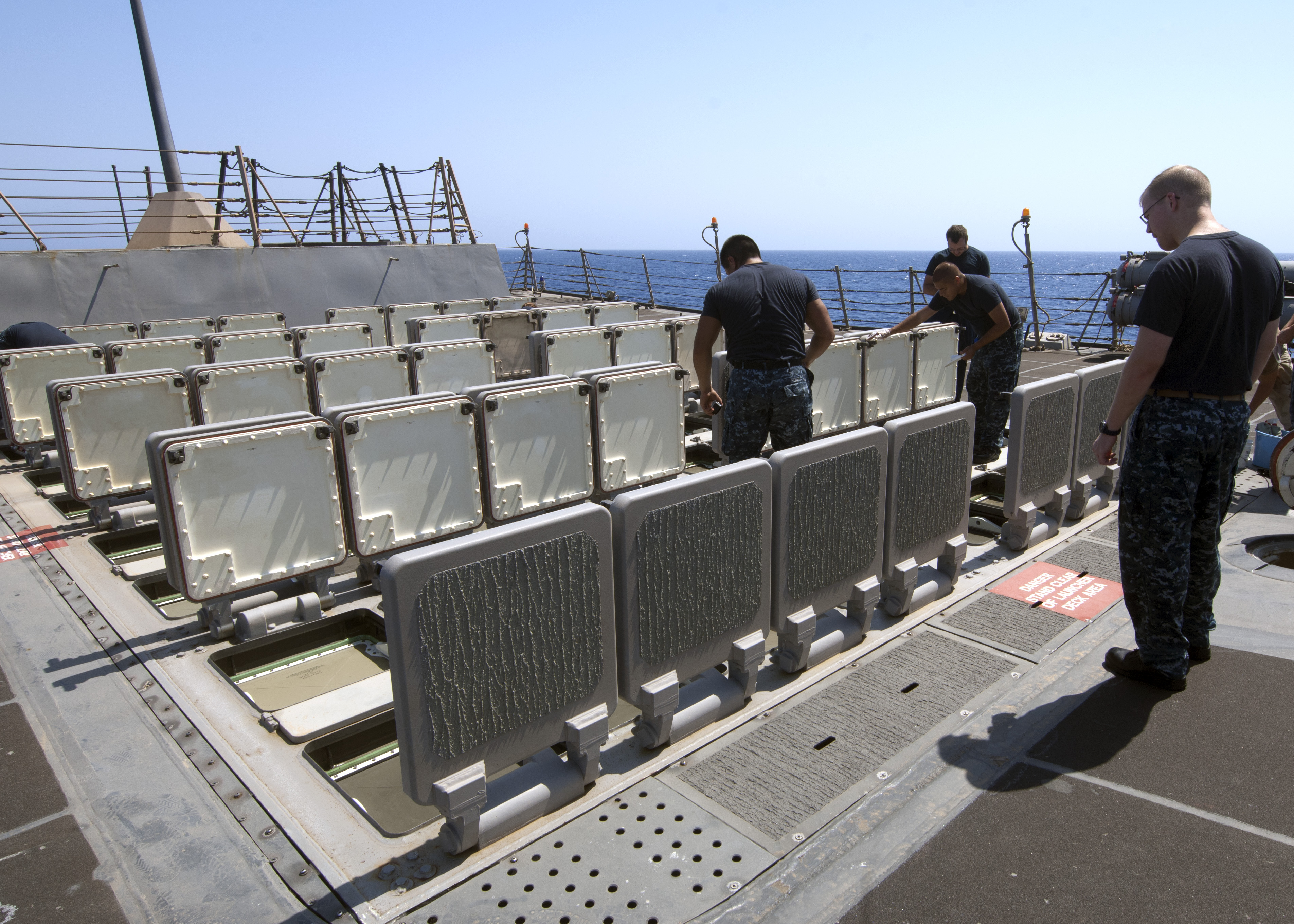 RED SEA (Aug. 23, 2012) Sailors perform routine maintenance on tomahawk cruise missile launchers aboard the guided-missile destroyer USS James E. Williams (DDG 95). James E. Williams is deployed to the U.S. 5th Fleet area of responsibility conducting maritime security operations, theater security cooperation efforts and support missions for Operation Enduring Freedom. (U.S. Navy photo by Mass Communication Specialist 3rd Class Daniel Meshel/Released) 120823-N-NL401-011 Join the conversation navylive.dodlive.mil